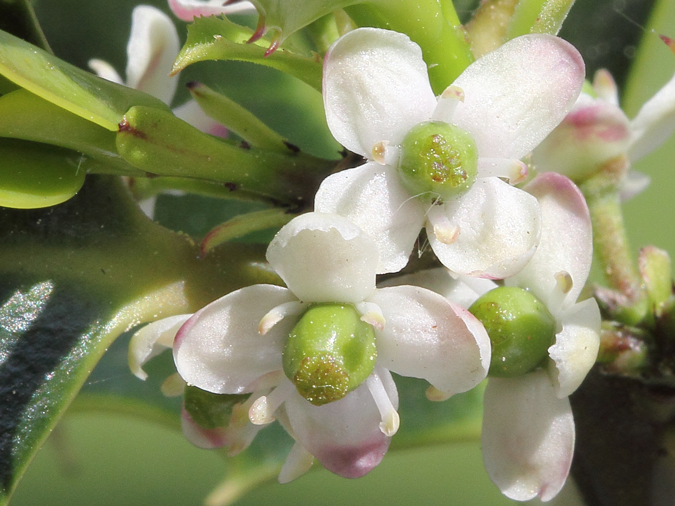 Detailed view of female blossom of Holly (ilex aquifolium). Picture taken in private garden, Germany